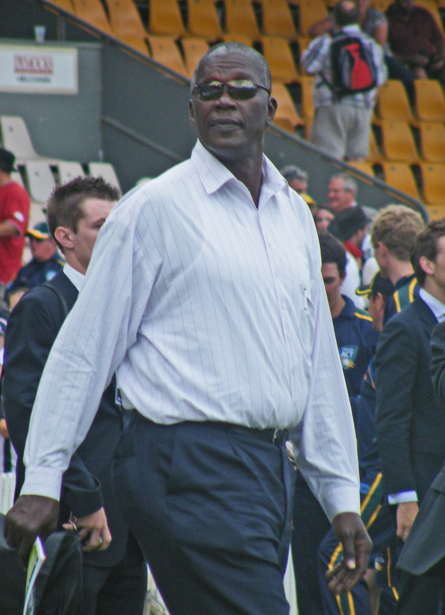 Joel Garner at the Prime Ministers 11 Cricket match in Canberra 2010.